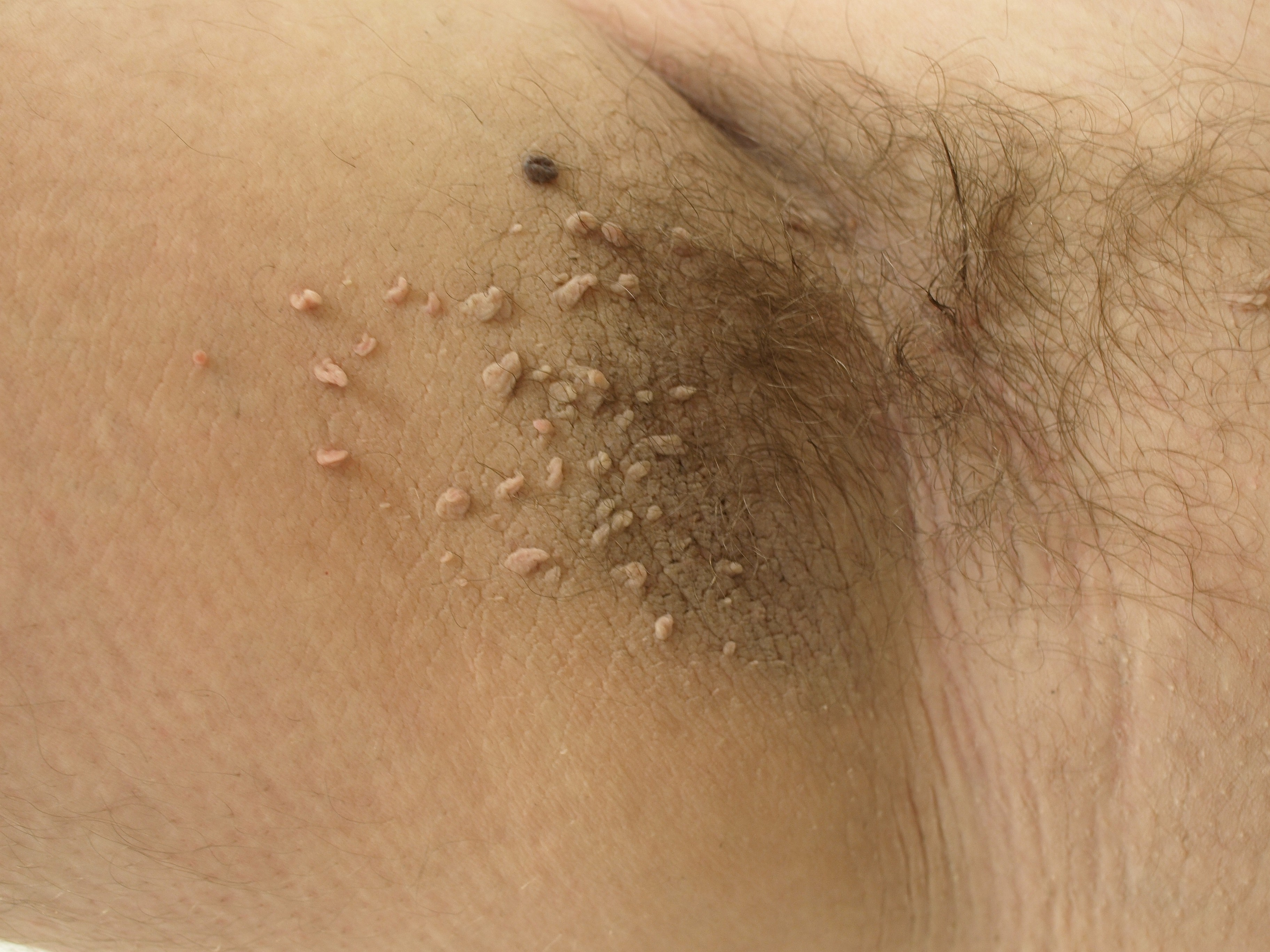 Fibroma and Pseudoacanthosis nigricans in 18-year-old man suffering from obesity. Right armpit.